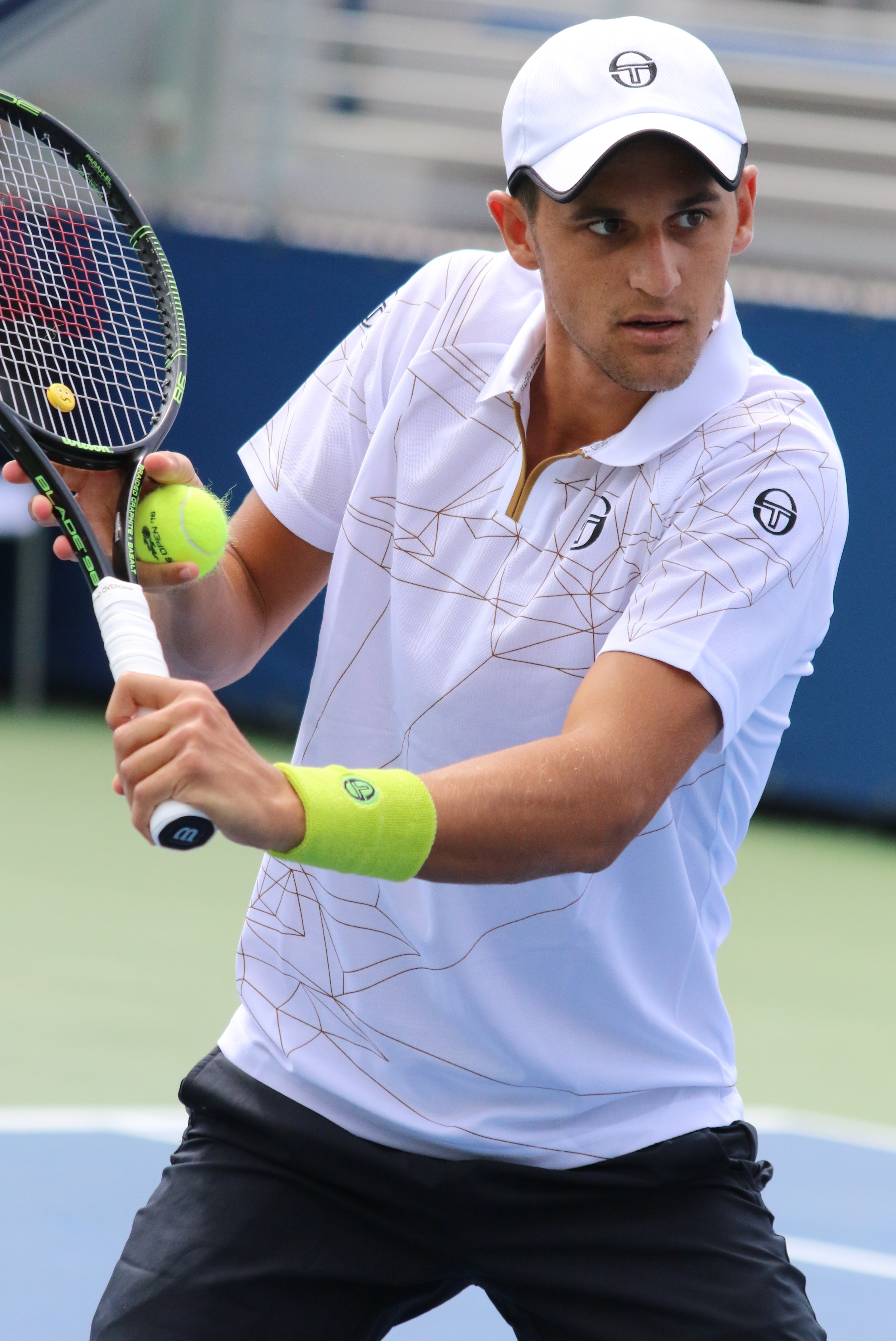 Pavic M. US16 (4)